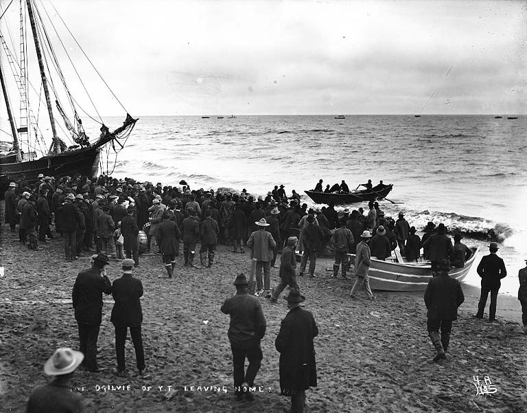 Caption on image: "Gov. Ogilvie of Y.T. leaving Nome." Original photograph by Eric A. Hegg 1470; copied by Webster and Stevens 4.A Subjects (LCTGM): Sailing ships--Alaska--Nome; Beaches--Alaska--Nome; Rowboats--Alaska--Nome